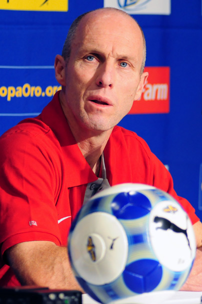 Photo of soccer coach, Bob Bradley. Wilson Wong photo.